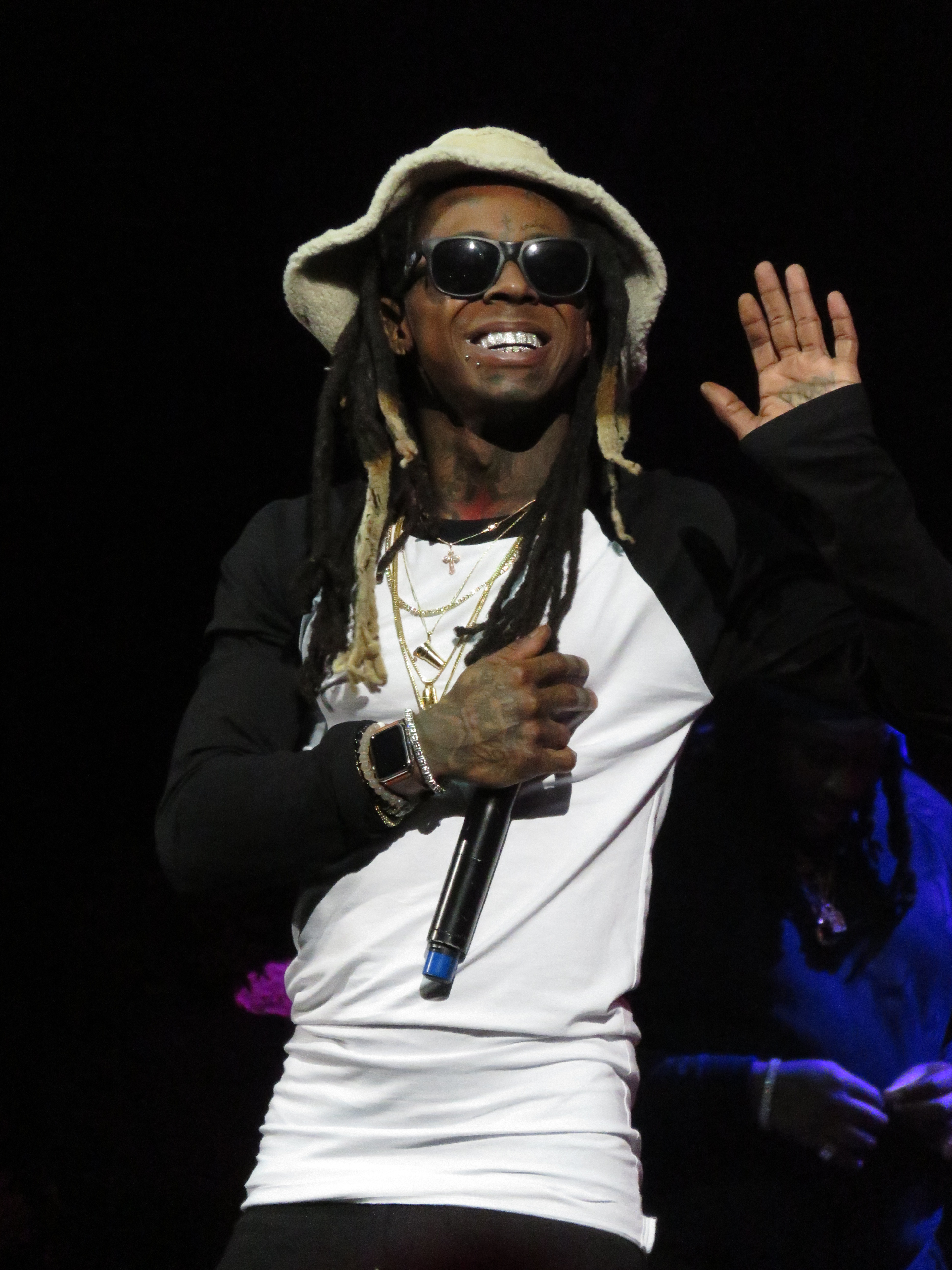 Lil Wayne + Yung Jeezy (Dec. 19th, Biloxi, MS)